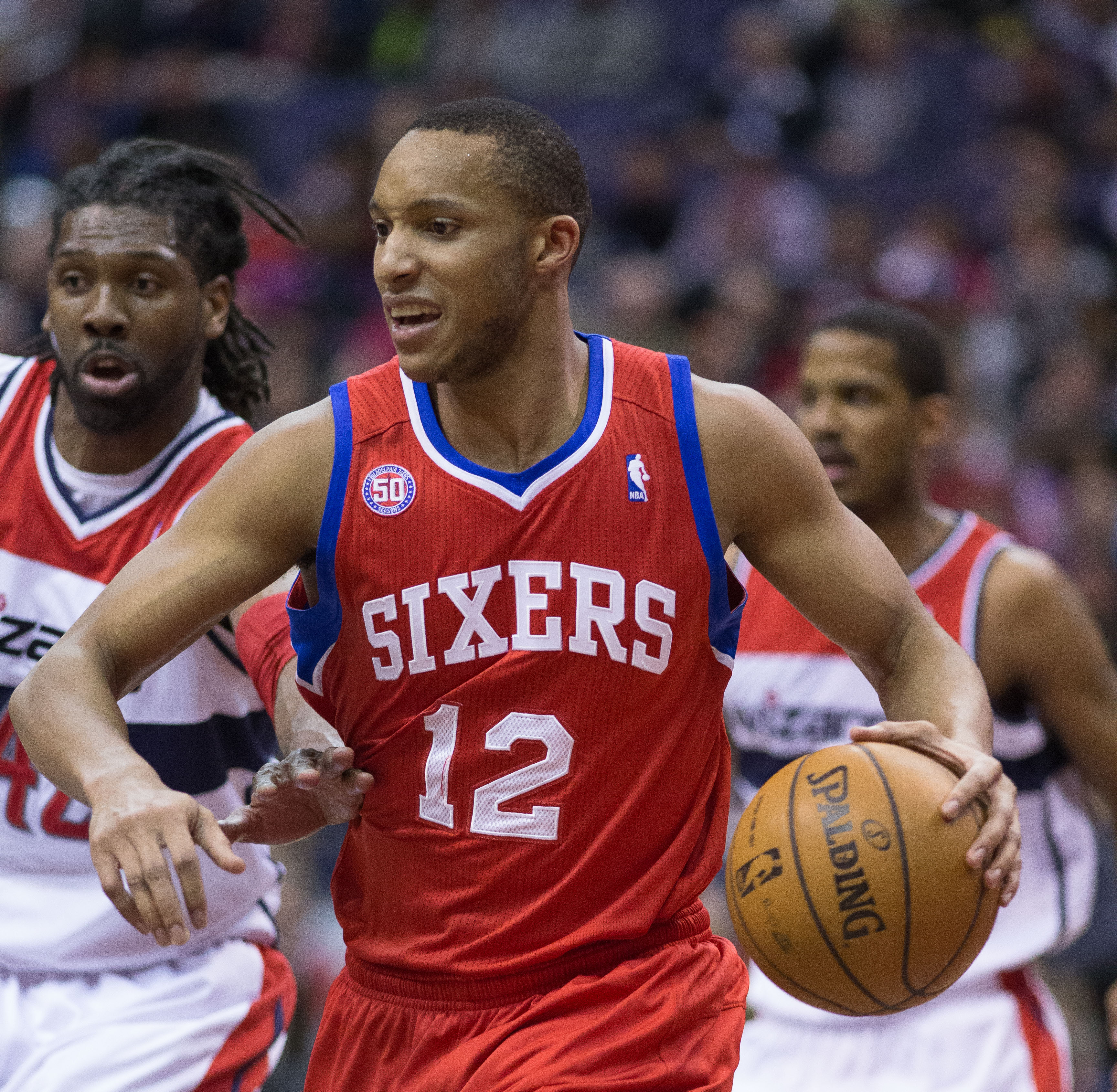 Philadelphia 76ers at Washington Wizards March 3, 2013